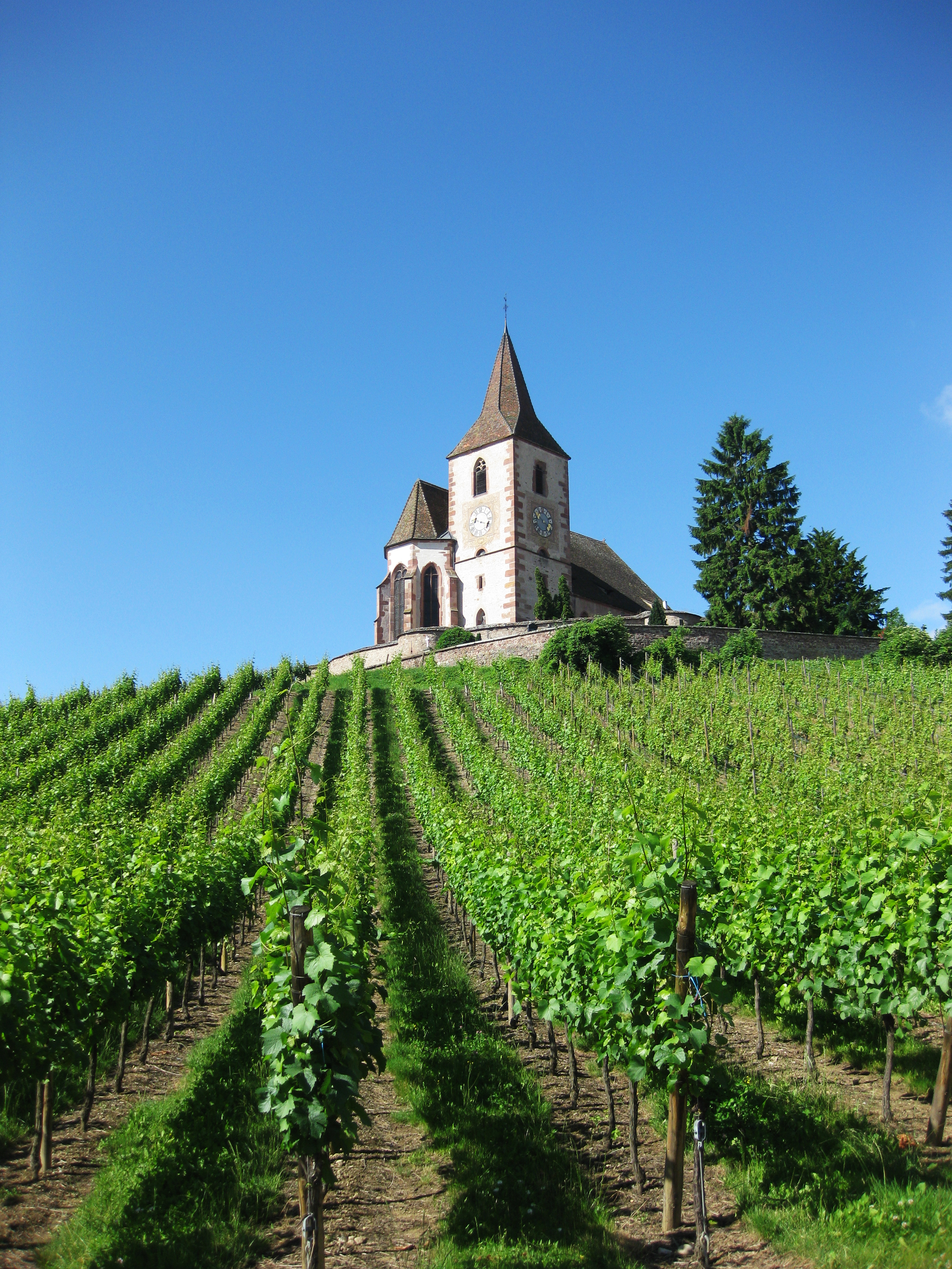 Hunawihr fortified church view form the vineyard